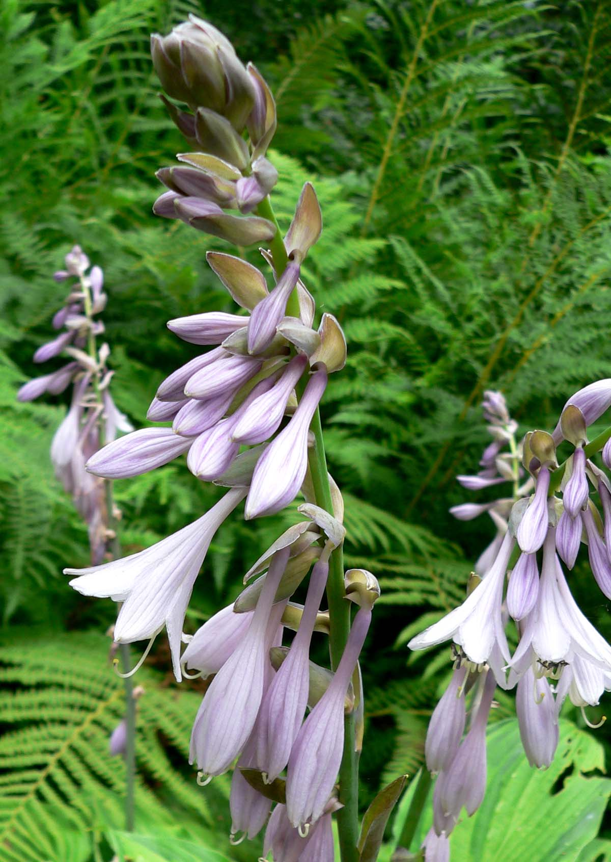 Photo of Hosta fortunei 'Picta' at the UBC Botanical Garden in Vancouver